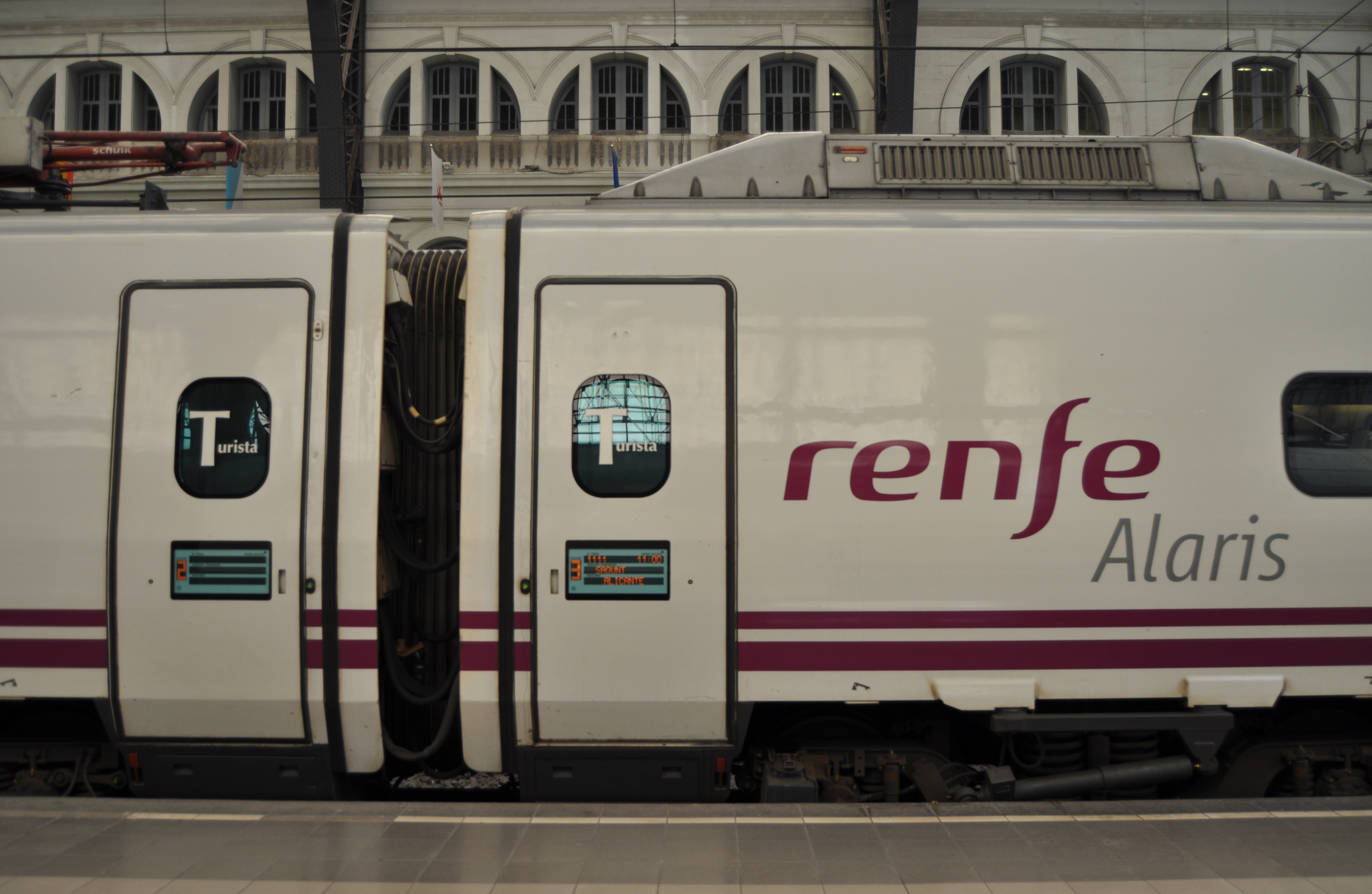 RENFE Class 490 in Barcelona França railway station of Barcelona.